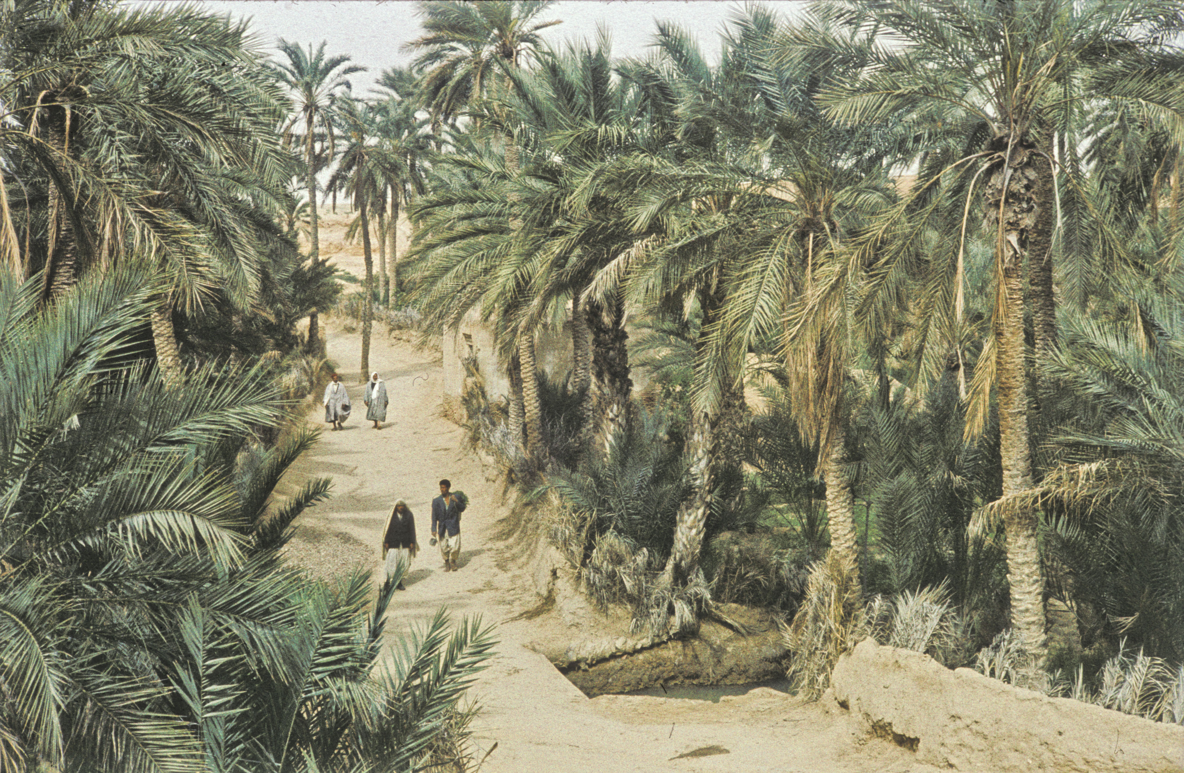 Tunisia (1960, locality unknown)